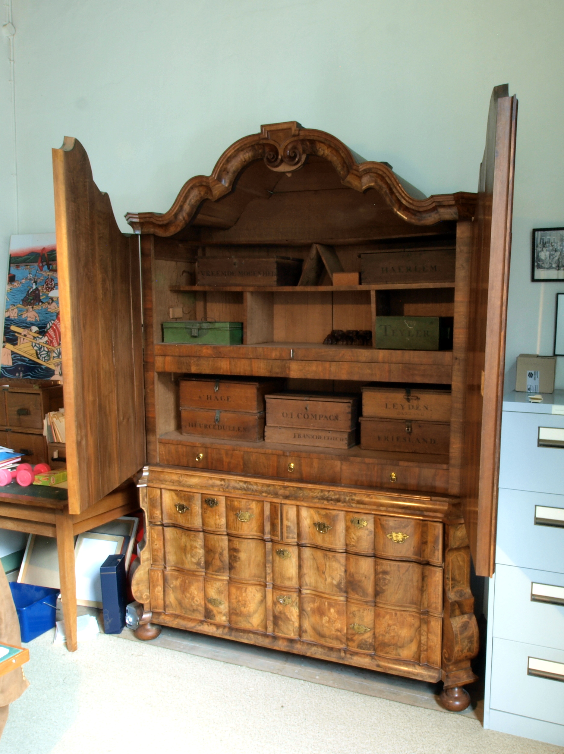 Old cabinet with boxes (which contained his papers of value) that belonged to Teyler.